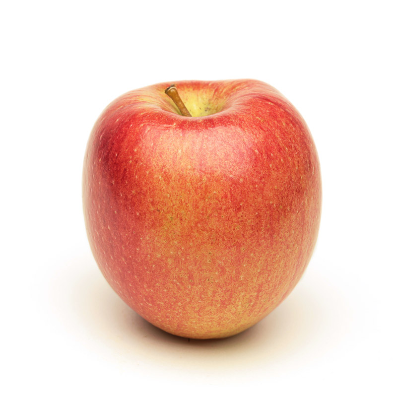 Braeburn apple Photographed by Brian Arthur